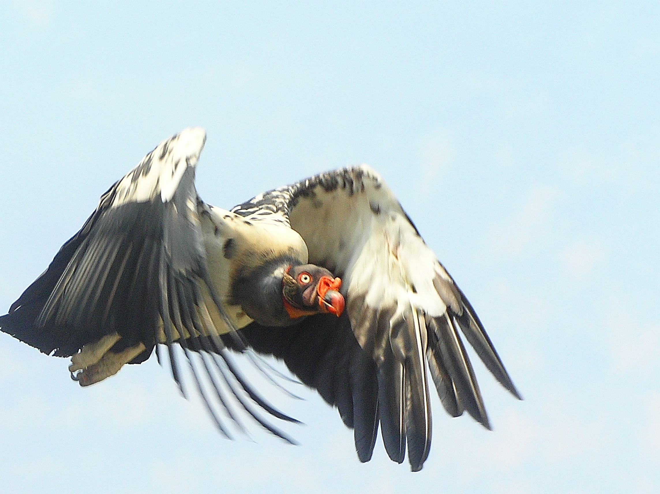 King Vulture (Sarcoramphus papa) in flight, Antwerp Zoo.